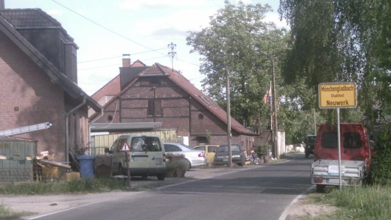 Donk, Neuwerk, Mönchengladbach, Germany.